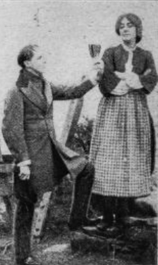 Still from the British film Darby and Joan, starring Derwent Hall Caine. From page 4 of Dec. 13th 1919 The Picture Show magazine. Patrick Gorry shows his mother the cup he won in the prize ring.